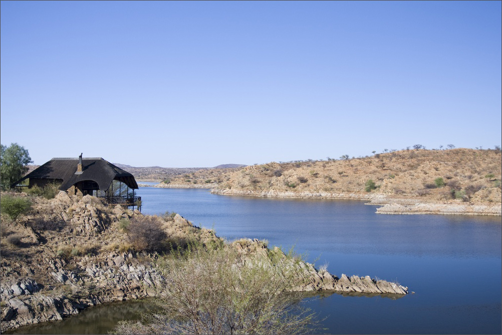 Oanob lake resort near Rehoboth, Namibia